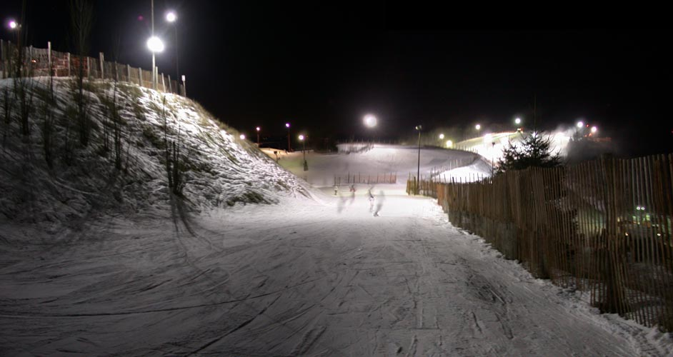 Wilmot Mountain Ski Resort. Upper Cat Trail, the Blue area behind the mountain top. Evening time exposure. Wilmot, Wisconsin.